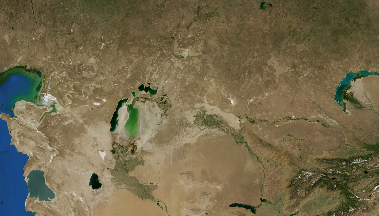 Kyzyl Kum Dessert